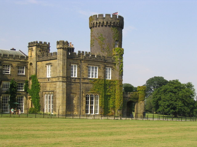 Swinton Park Hotel